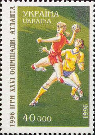 Stamp of Ukraine